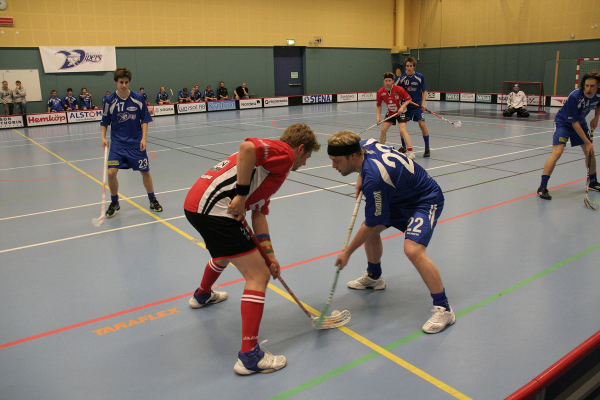 A face-off in a floorball game between swedish clubs Växjö Vipers and UHC